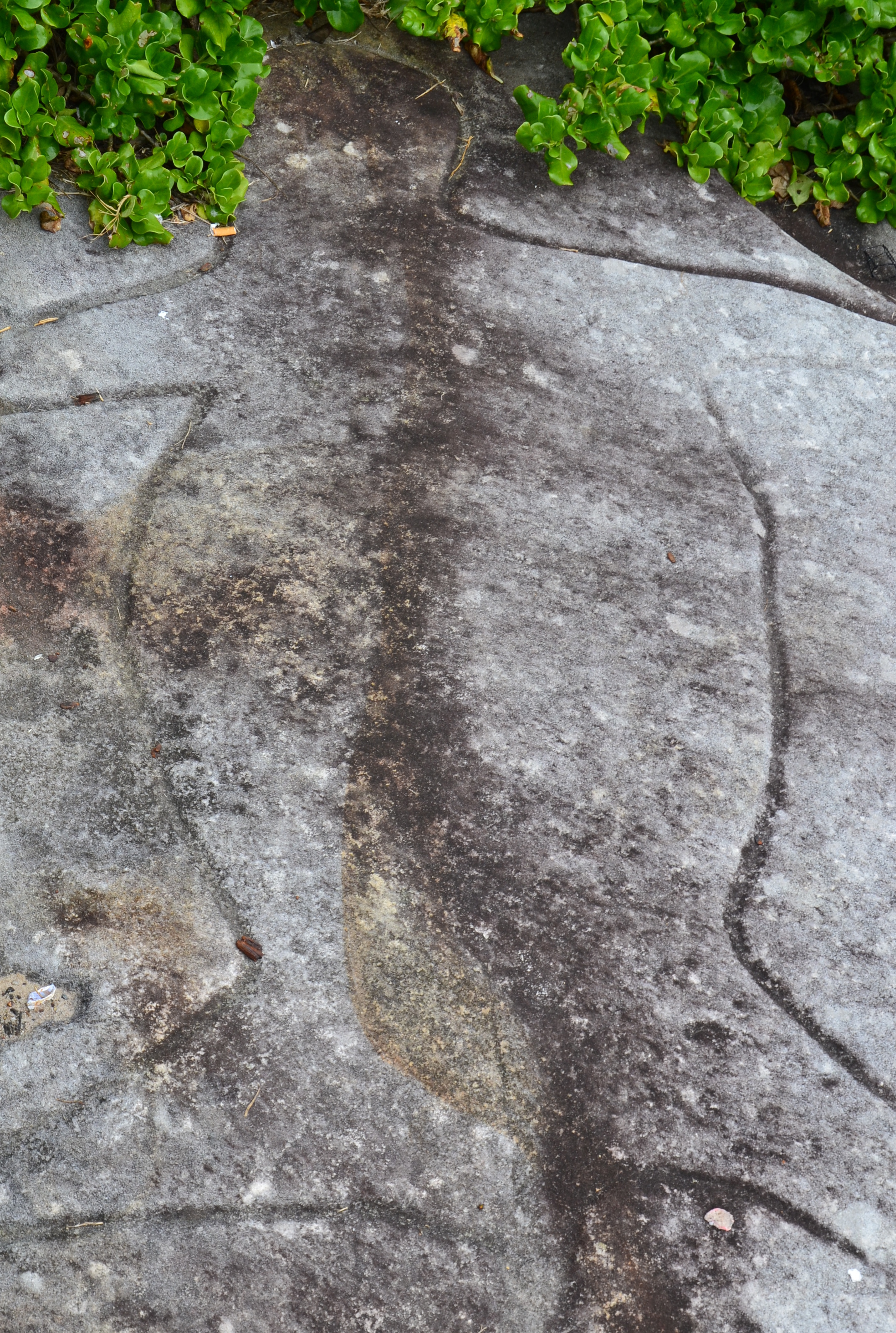 Aboriginal rock carving believed to represent a turtle, adjacent to steps at Ben Buckler, north end of Bondi Beach, Sydney